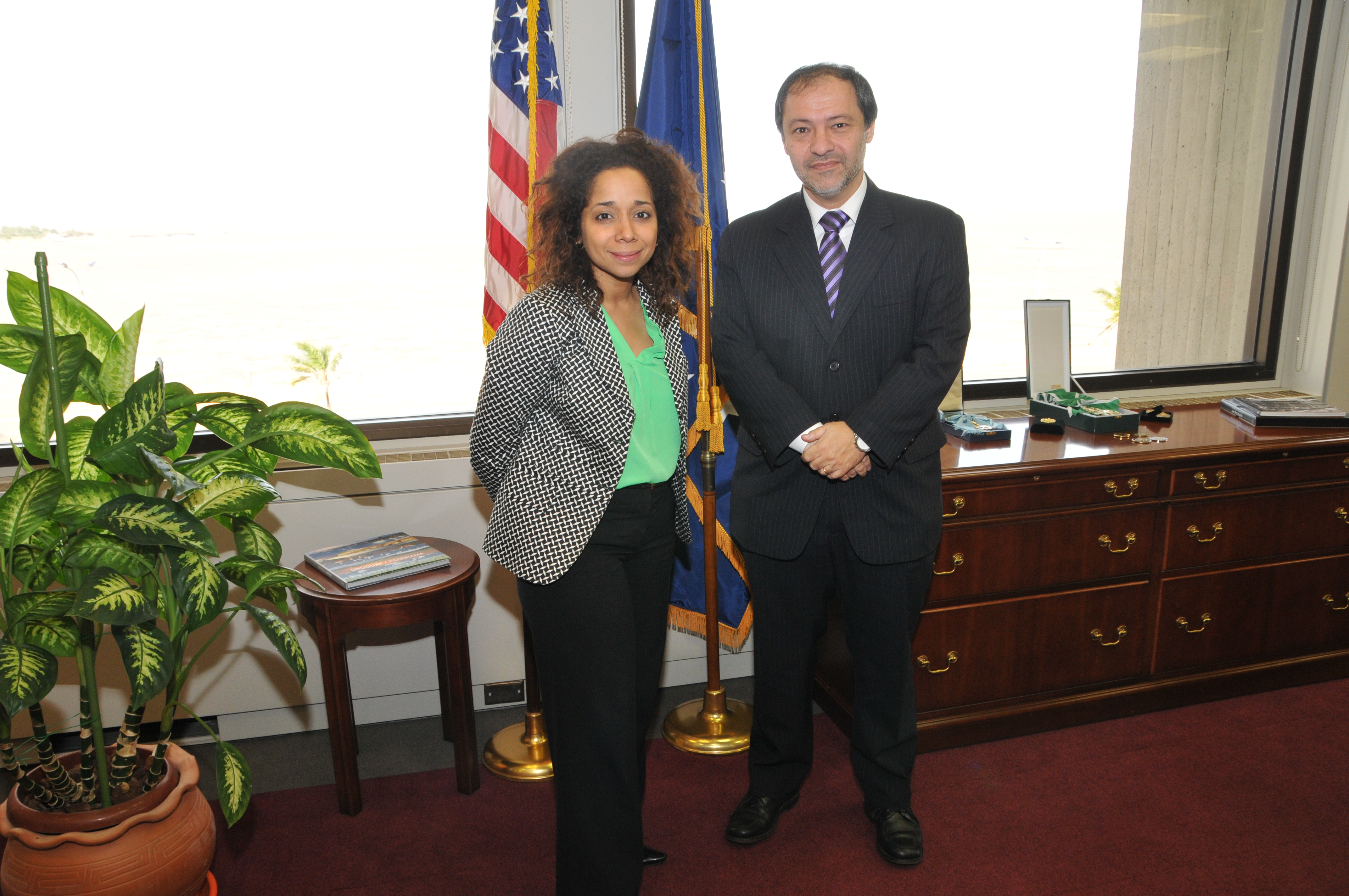 Ambassador Reynoso with Max Sapolinsky, Secretary General of the Colorado Party. [U.S. Embassy photo by Vince Alongi / Copyright info ]